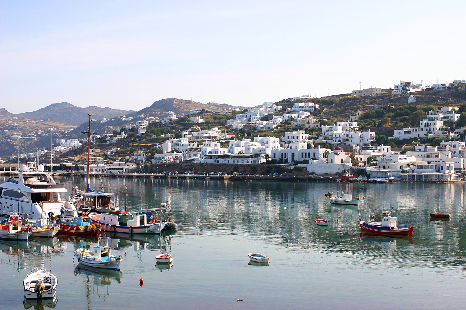 The old port of Hora, Mykonos.